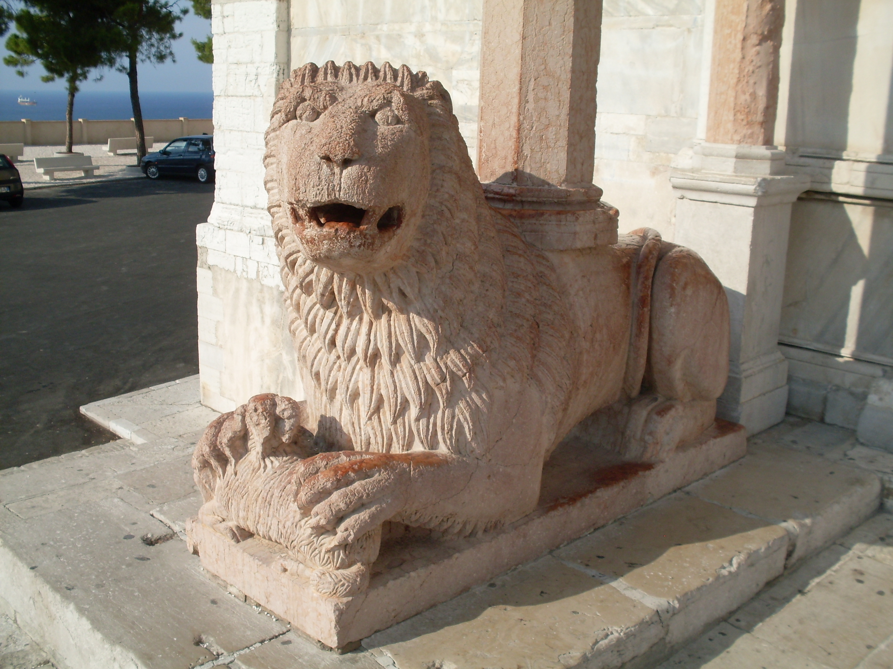 Ancona S.Ciriaco - leone Italy